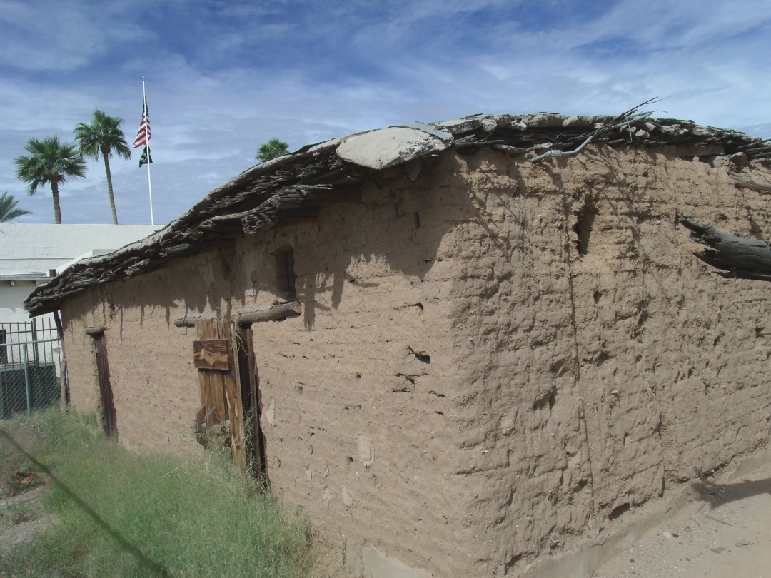 The Duppa-Montgomery Adobe House was built in around 1870 and is located at 116 W. Sherman St. Phoenix, Arizona. It is one of Phoenix's oldest houses. This was the homestead house of Phillip Darrell Duppa, an Englishman who called himself "Lord" Duppa and who is credited with naming "Phoenix" and "Tempe" and the founding of the town of New River. Duppa later sold the adobe house to John Britt Montgomery. Designated as a landmark with Historic Preservation-Landmark (HP-L) overlay zoning. See: Phoenix Times